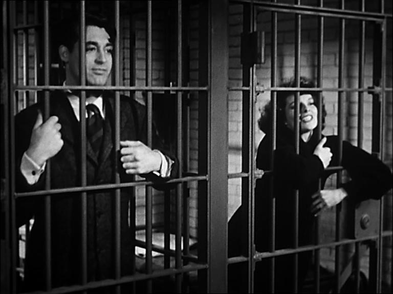 Screenshot of Katharine Hepburn and Cary Grant from the trailer for the film Bringing Up Baby